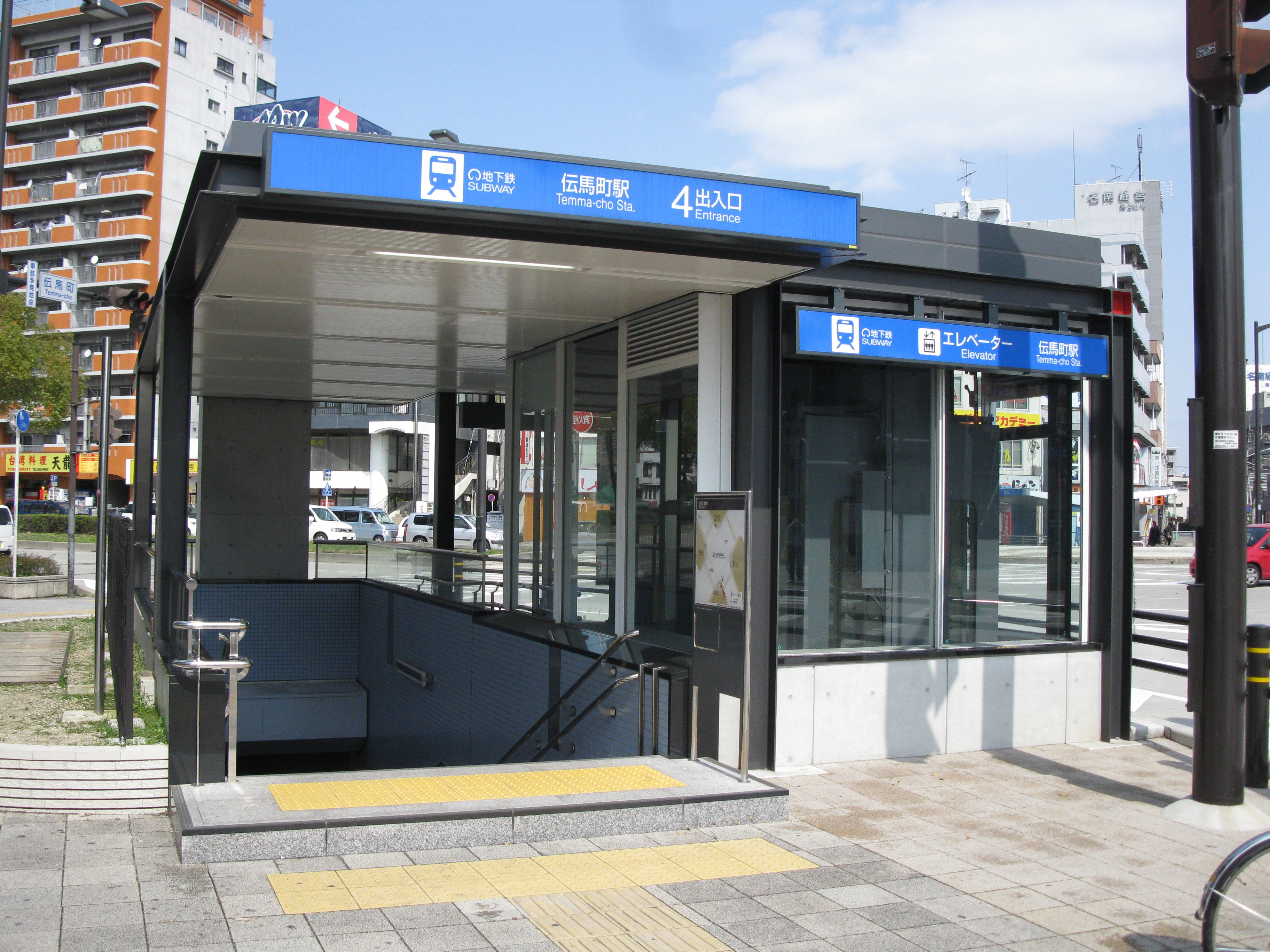 Temma-chō Station no.4 entrance (Nagoya Municipal Subway Meijō Line)